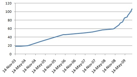 Graph to show growth of 99p stores from 2003-2009 Information from graph compiled from the following sources